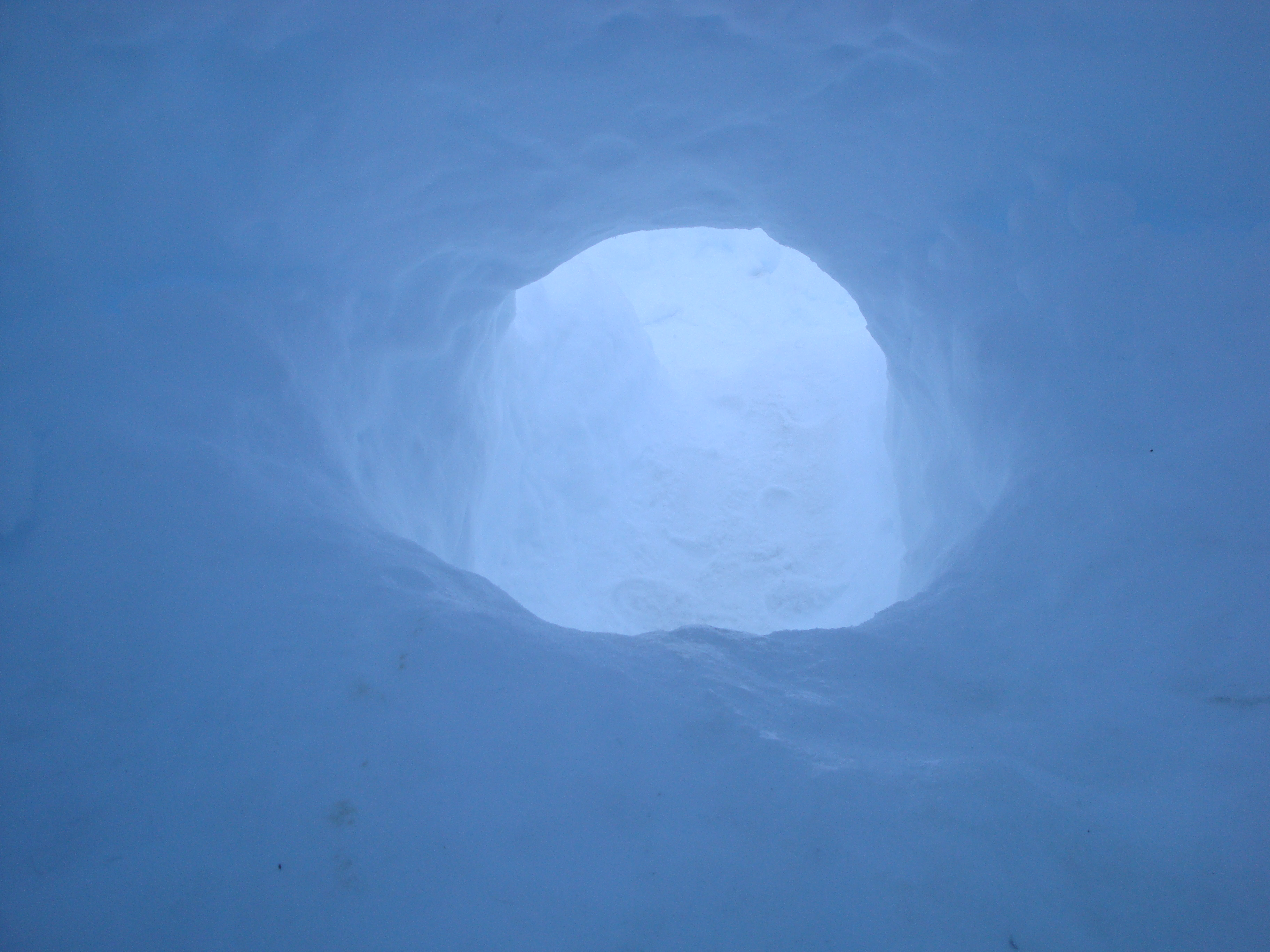 Interior of an igloo, facing the entrance. The floor of the igloo is at the bottom of the picture. A tunnel leading to the entrance drops down from the floor.